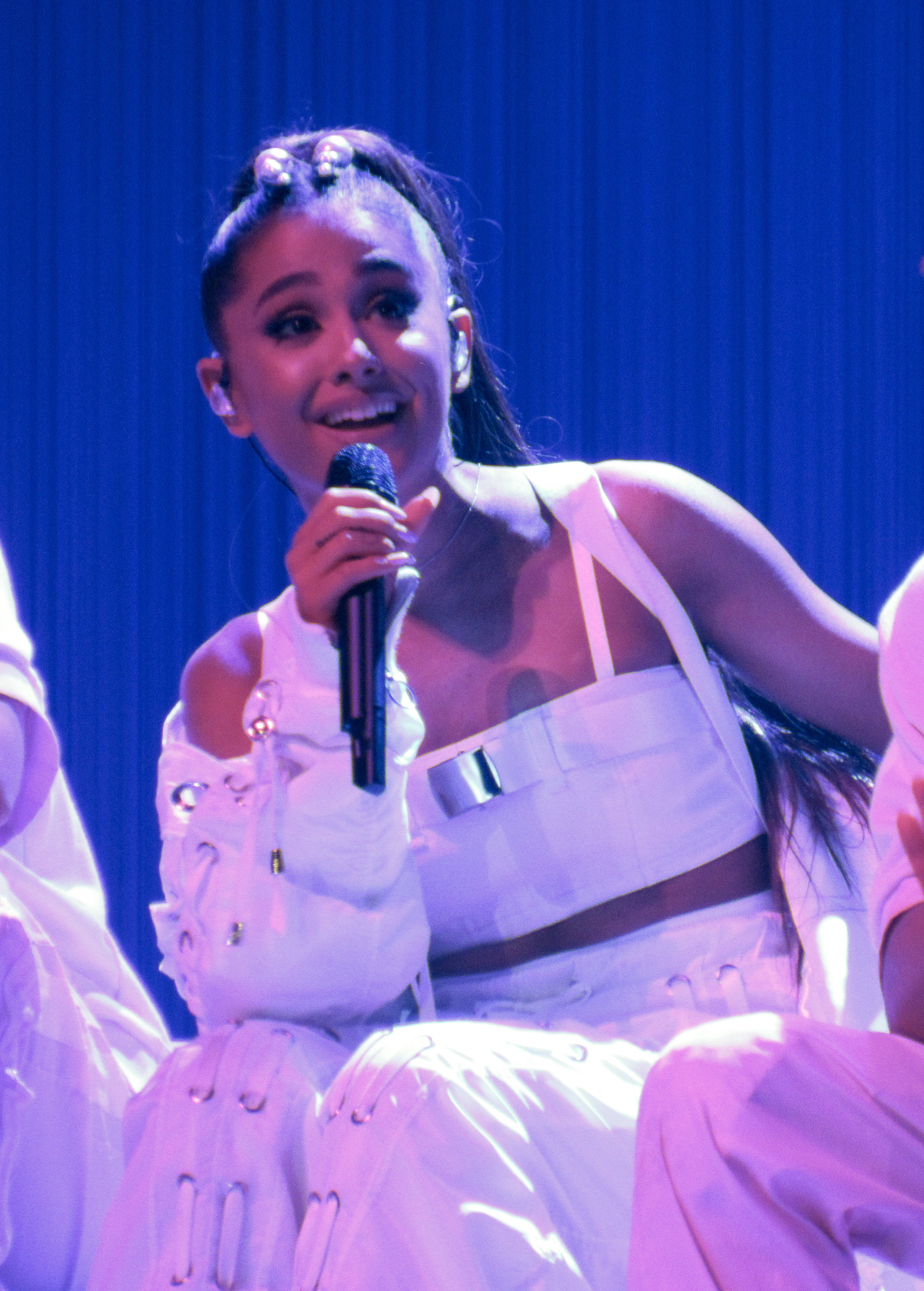 Dangerous Woman Tour 2/19/17 Ariana Grande performing during Dangerous Woman Tour in Manchester, New Hampshire, SNHU Arena, on February 19, 2017.